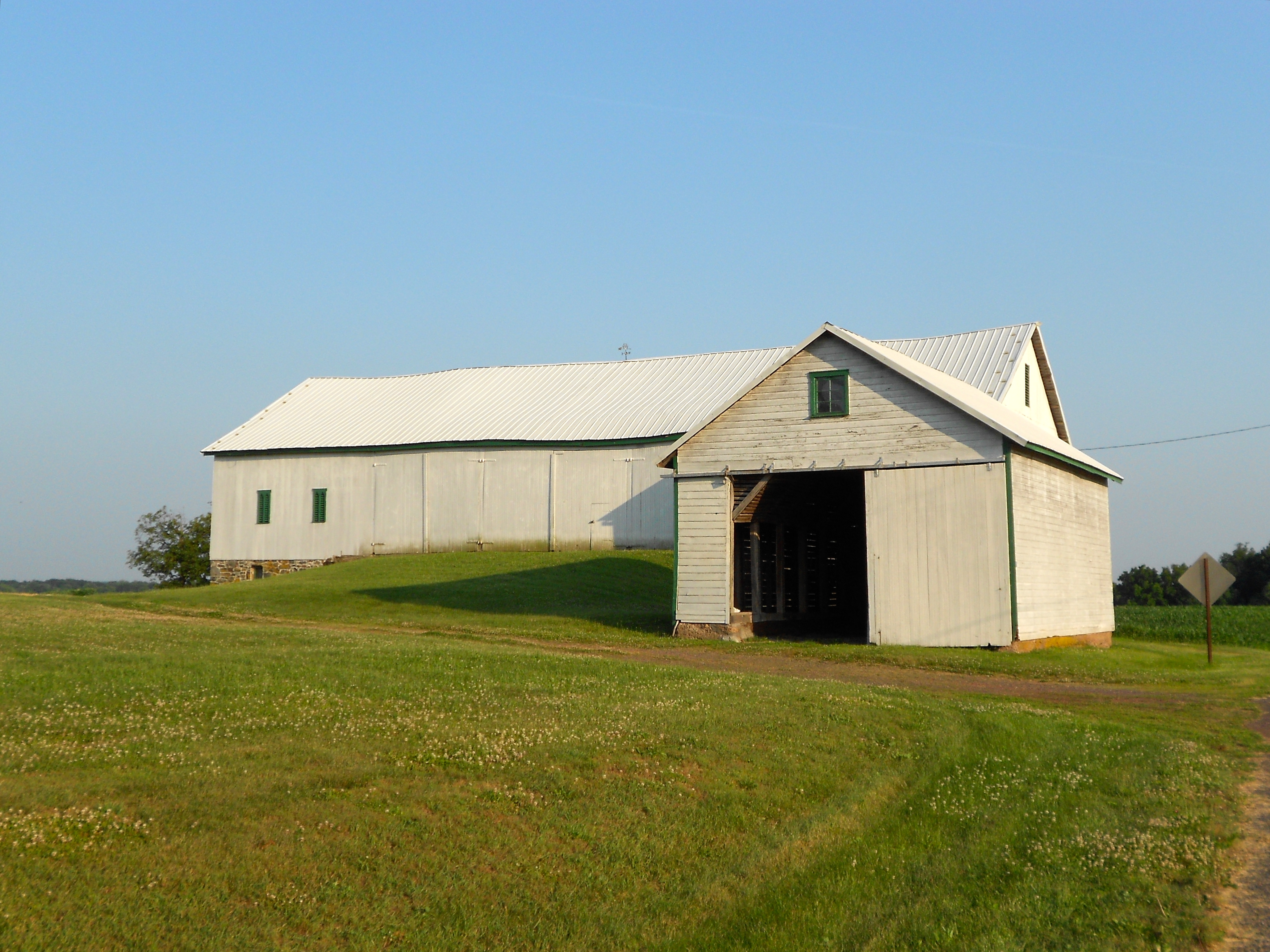 Horner Farm and Barn at 20 Horner Rd. (corner of Mason-Dixon Road), Cumberland Township, Adams County, Pennsylvania Area: 1.5 acres (0.61 ha) Built: 1819, 1840 Architectural style: Federal Added to NRHP: May 24, 2007